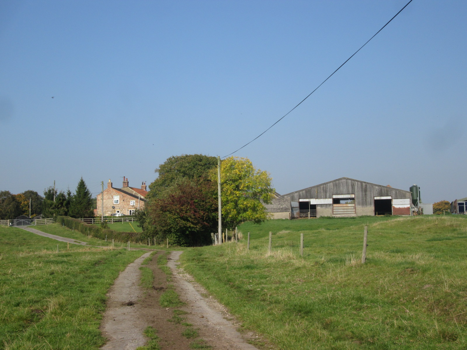 Approaching Marton Abbey Farm